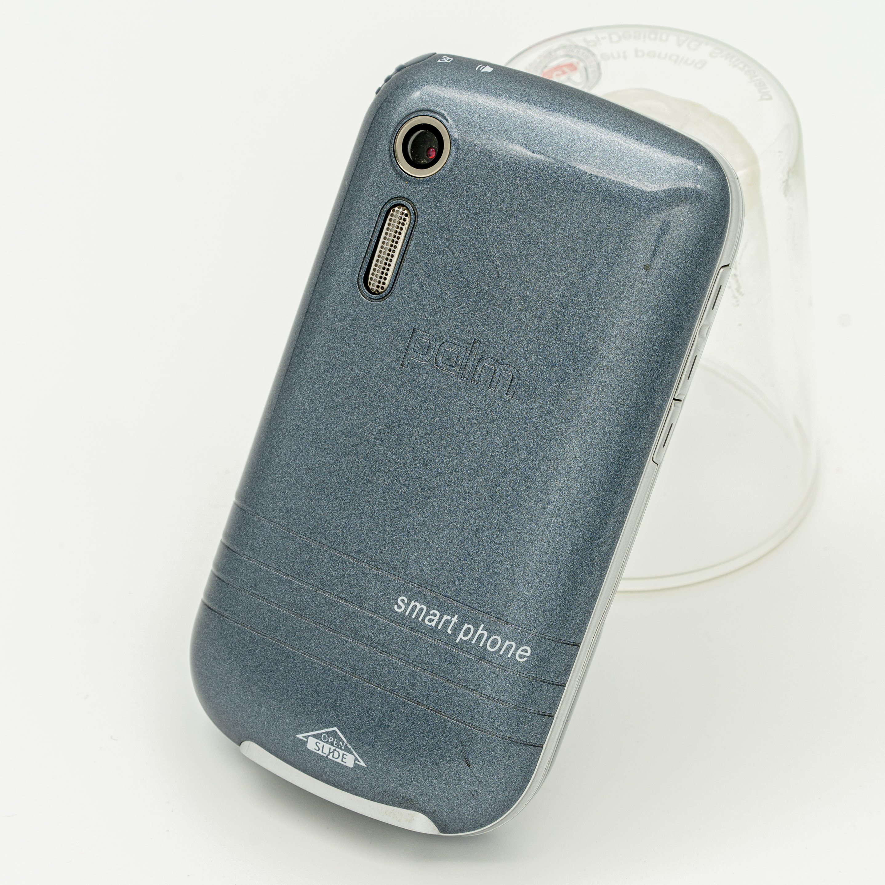 Back Cover for Palm Treo P850 Says "Smart phone" on the back cover!